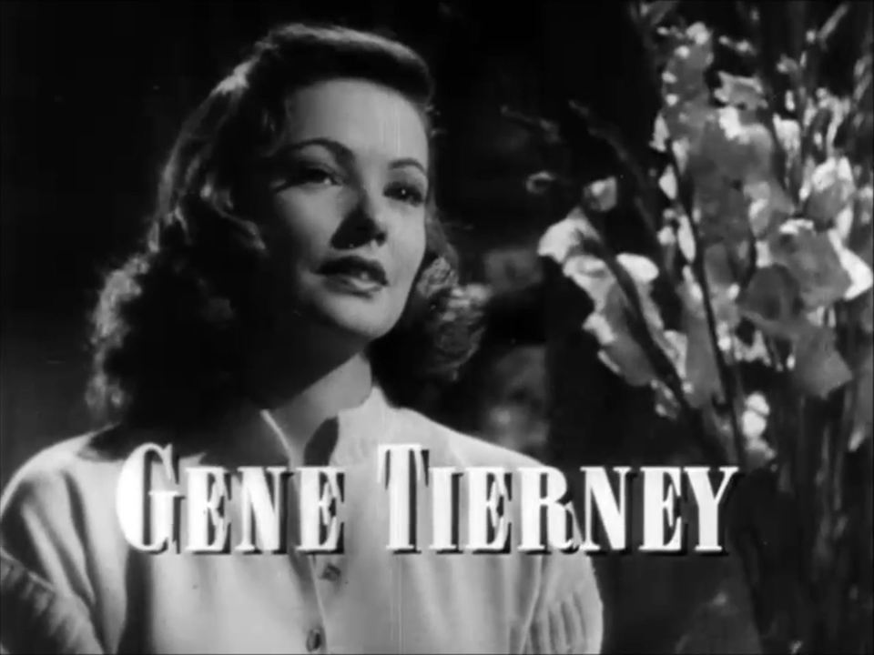 Cropped screenshot of Gene Tierney from the trailer for the film Laura.